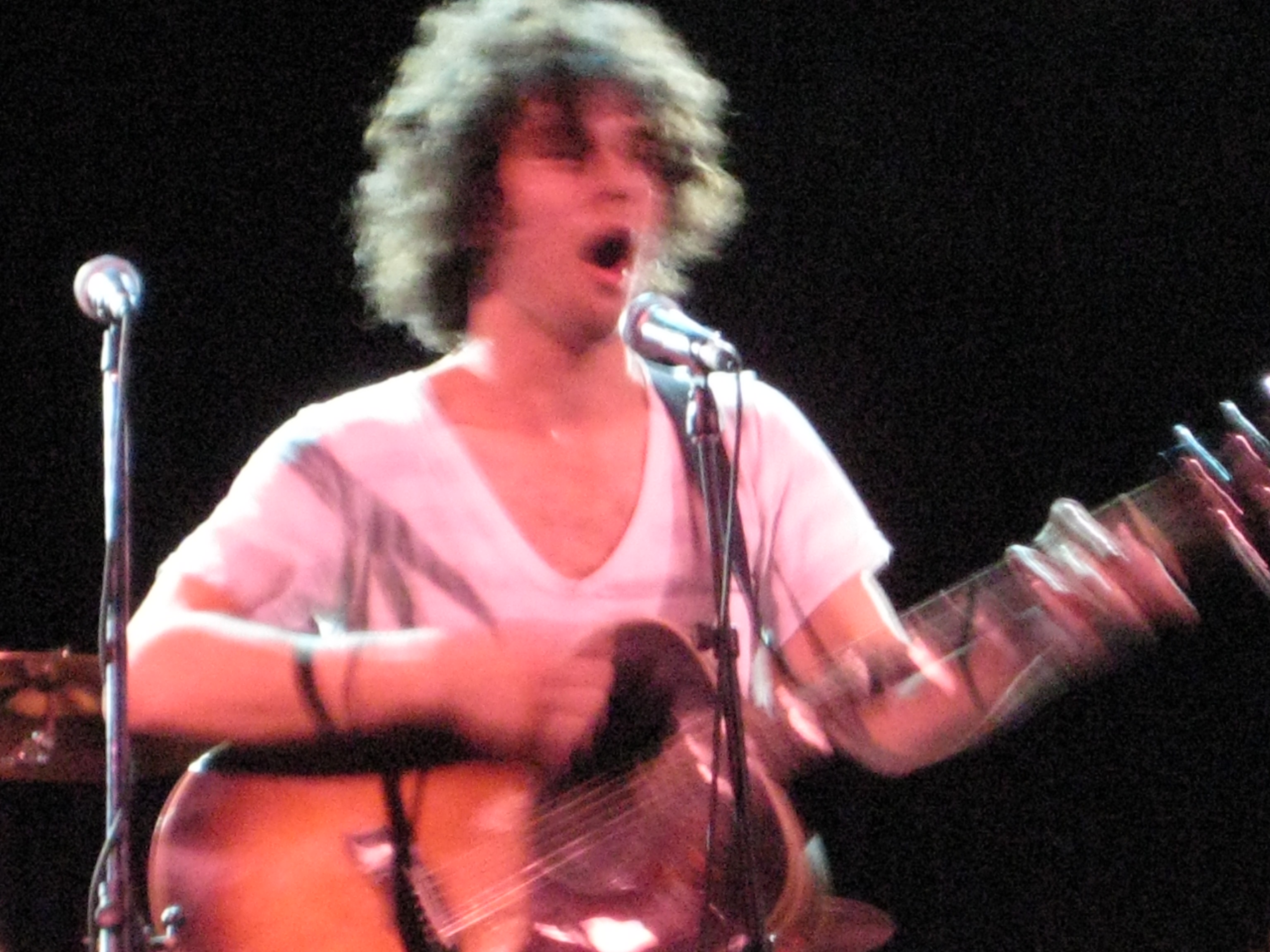 Jack Antonoff in concert with Steel Train, at The Opera House in Toronto